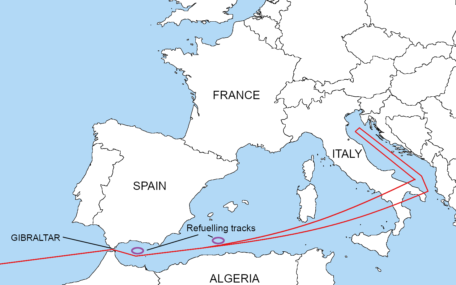 This aircraft navigational route is the Eastern section of a 15,000 mile, 26 hour, round-trip airborne alert from Miami, (HAFB), threatening six targets in The Soviet Union. Note the two air-refueling tracks near Spain. At the 22 hour mark, west bound, upon receipt of the "GO CODE", the B-52H remains capable of reversing direction and reaching at least the first target without additional refueling. Thereafter, assuming survival, the flight plan continues across N. Africa, Brazil, to recover the aircraft at Edwards AFB, California.